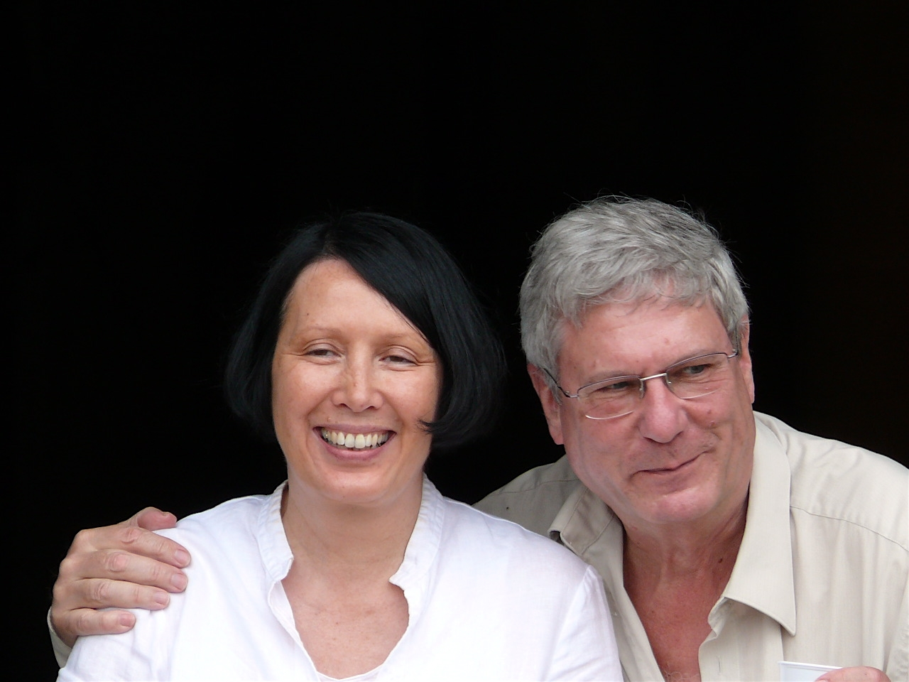 Michael Nerlich and his wife Evelyne Sinnassamy